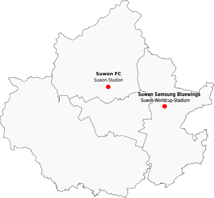 Citymap of Suwon